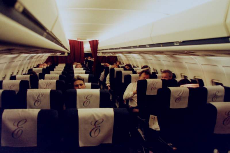 Business seats in a Scandinavian Airlines plane on the way to Budapest, Hungary, February 1997. DC-9/MD-80